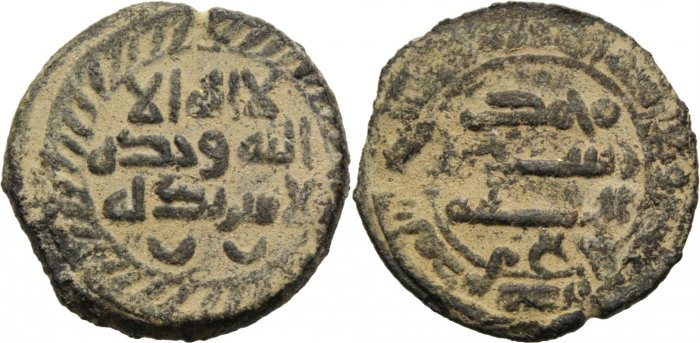 al-Ma’mun, AH 194-218, AD 813-833. Fals de cuivre AH 219, al-Quds (Jérusalem). Under the Umayyads Jerusalem was known by its Roman name Iliya Filastin (Arabic names for Palestine), but from the time of al-Ma’mun it was given the Islamic religious name al-Quds (meaning «holiness» or «sanctity»). This almost certainly refers to the shrine of the Dome of the Rock. This is the only coin on which al-Quds appears as a mint name. Album 291